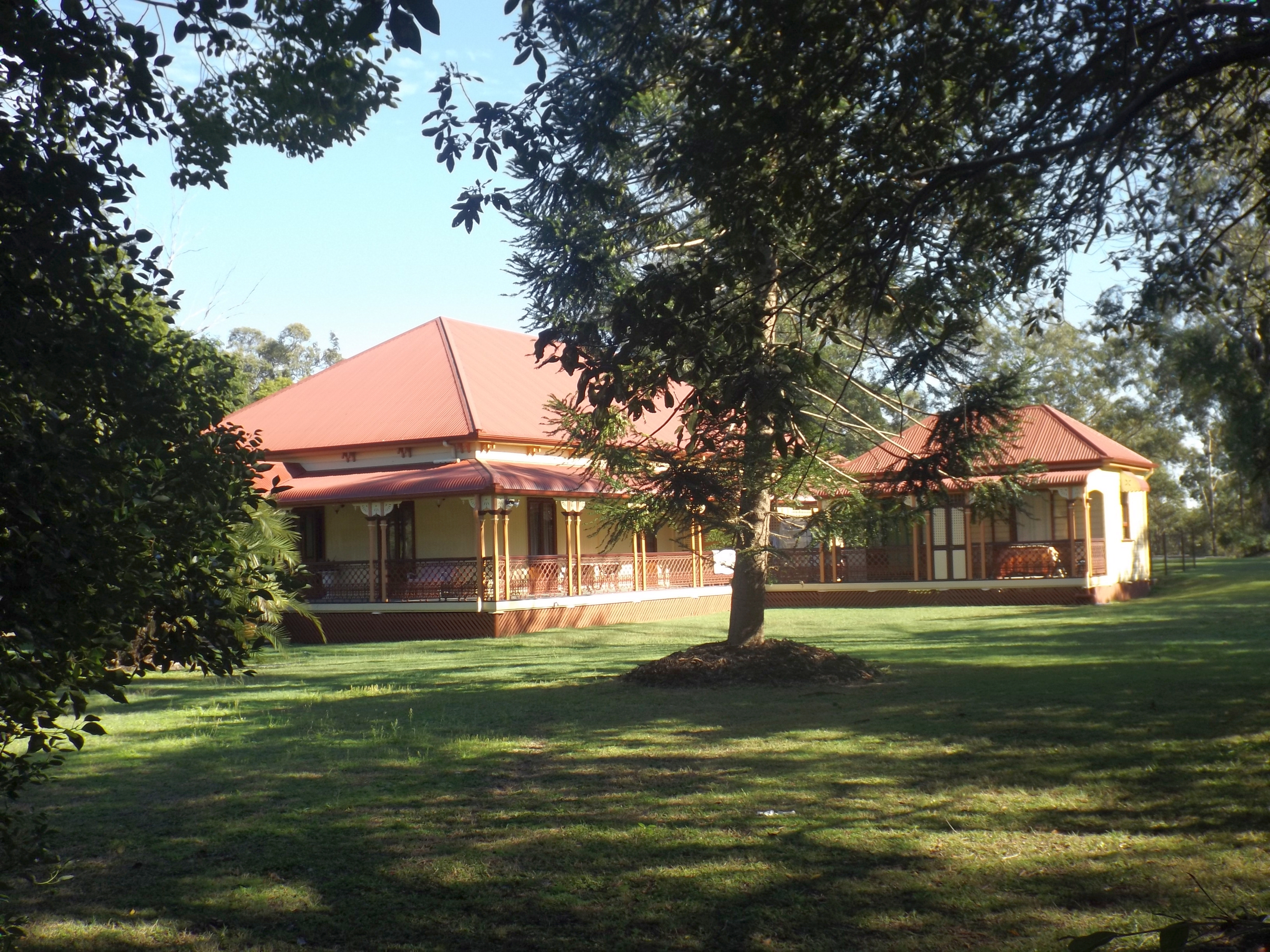 Photo of the house at 98 Mt Crosby Road, part of the Wright Family Houses in Tivoli, Ipswich Queensland, Australia.